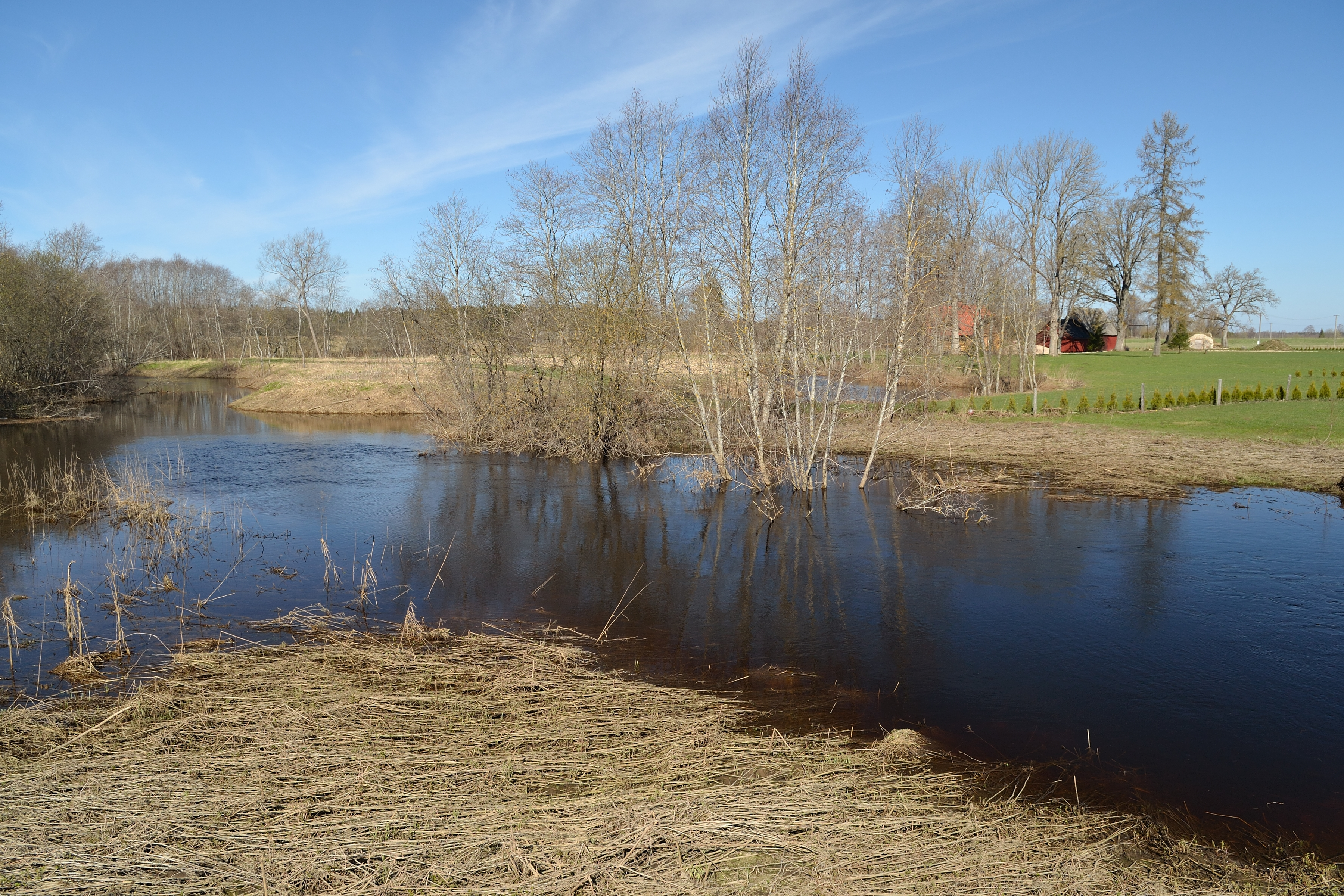 Lokuta river near its end (Kolu village)